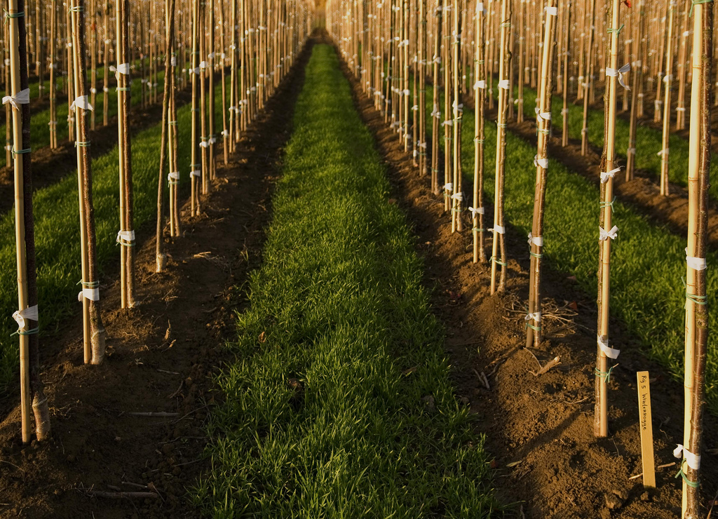 Trees in a nursery in the Netherlands